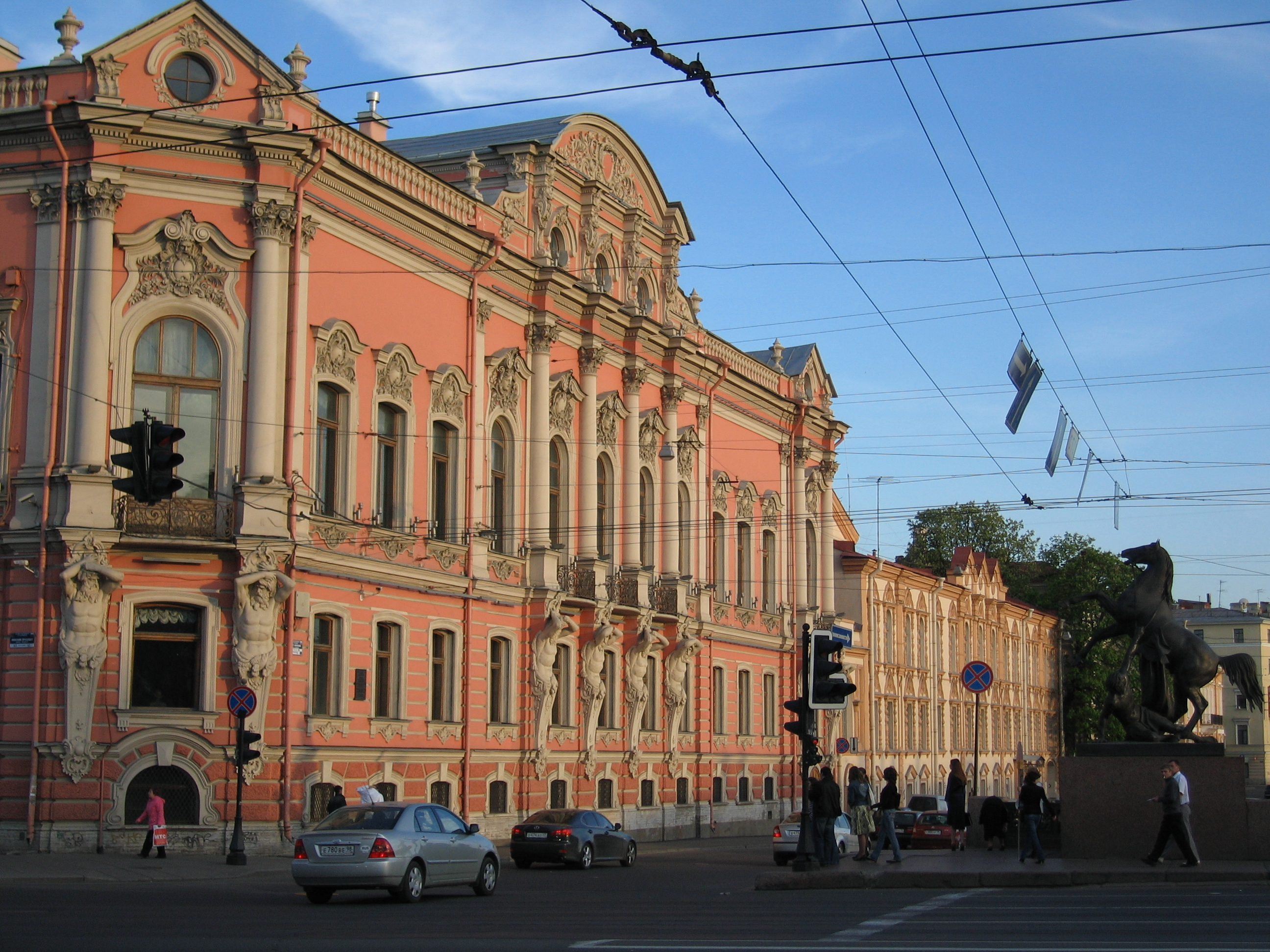 View of the Beloselsky-Belozersky Palace from the Anichkov Bridge